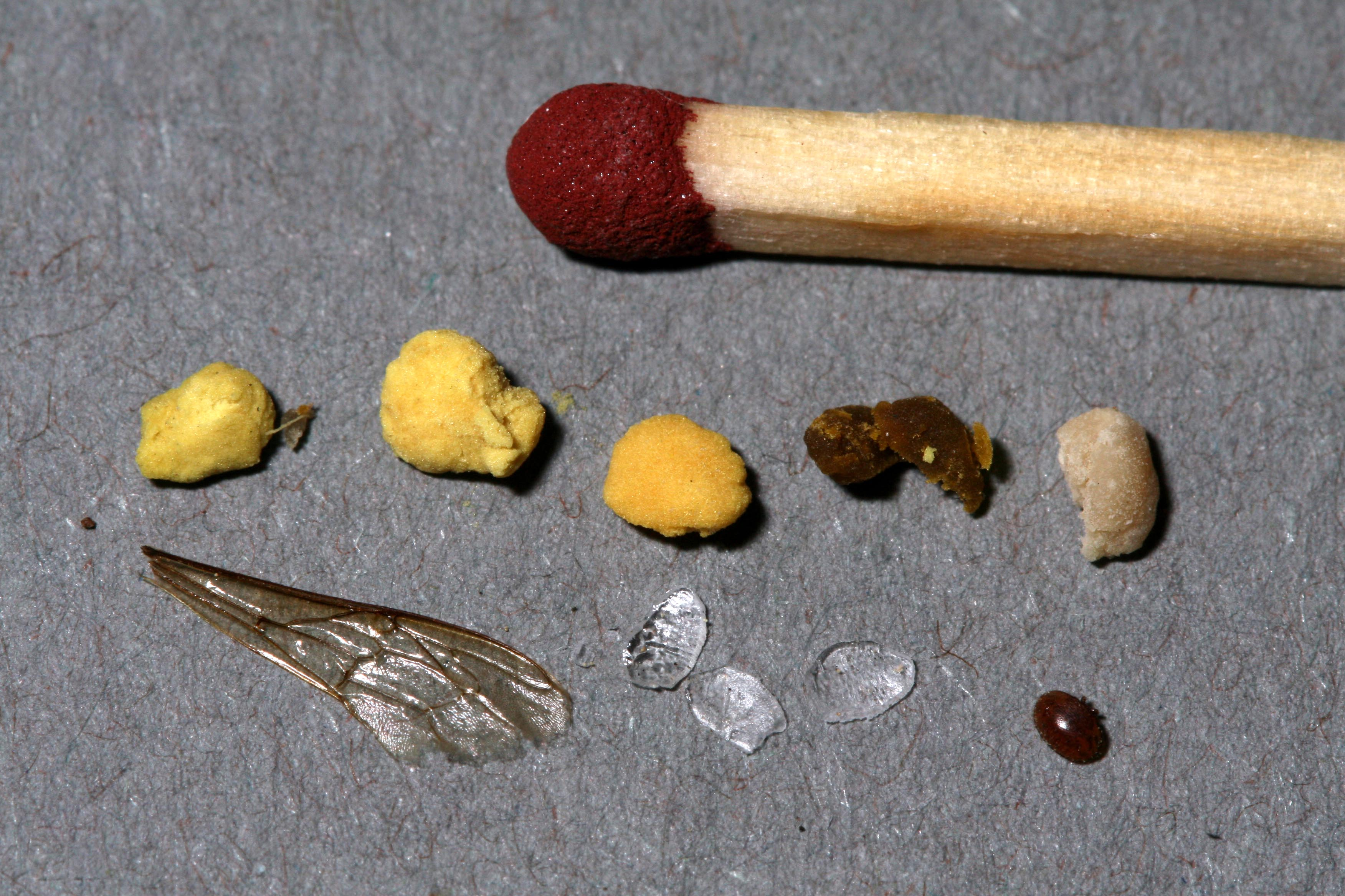 Examples of waste that falls to the floor of a beehive. The investigation of waste gives an indication of the health of bees. Here you can see from the waste in the middle row lost pollen packets of different plants, in the bottom row a bee wing, three freshly exuded wax scales (white in the beginning and almost transparent, as long as they are not used in construction of honeycombs), and a varroa mite.